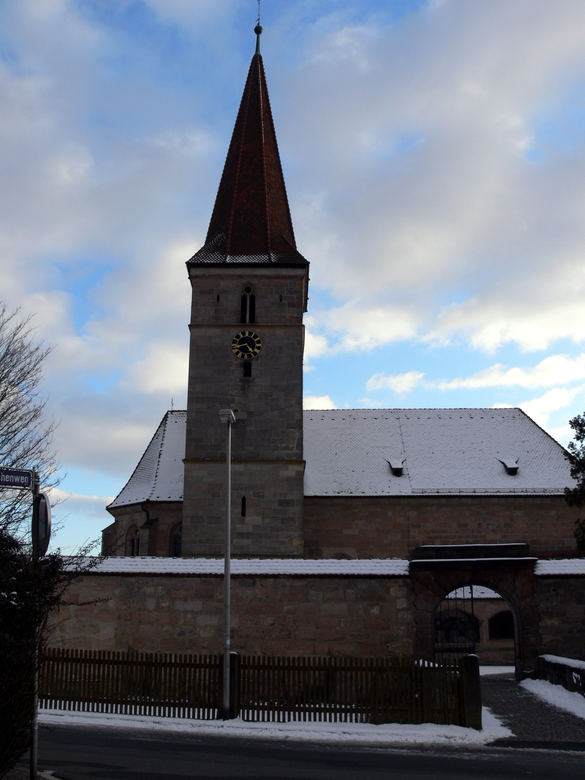 Saint Sixtus church in Erlangen-Büchenbach. Exterior.